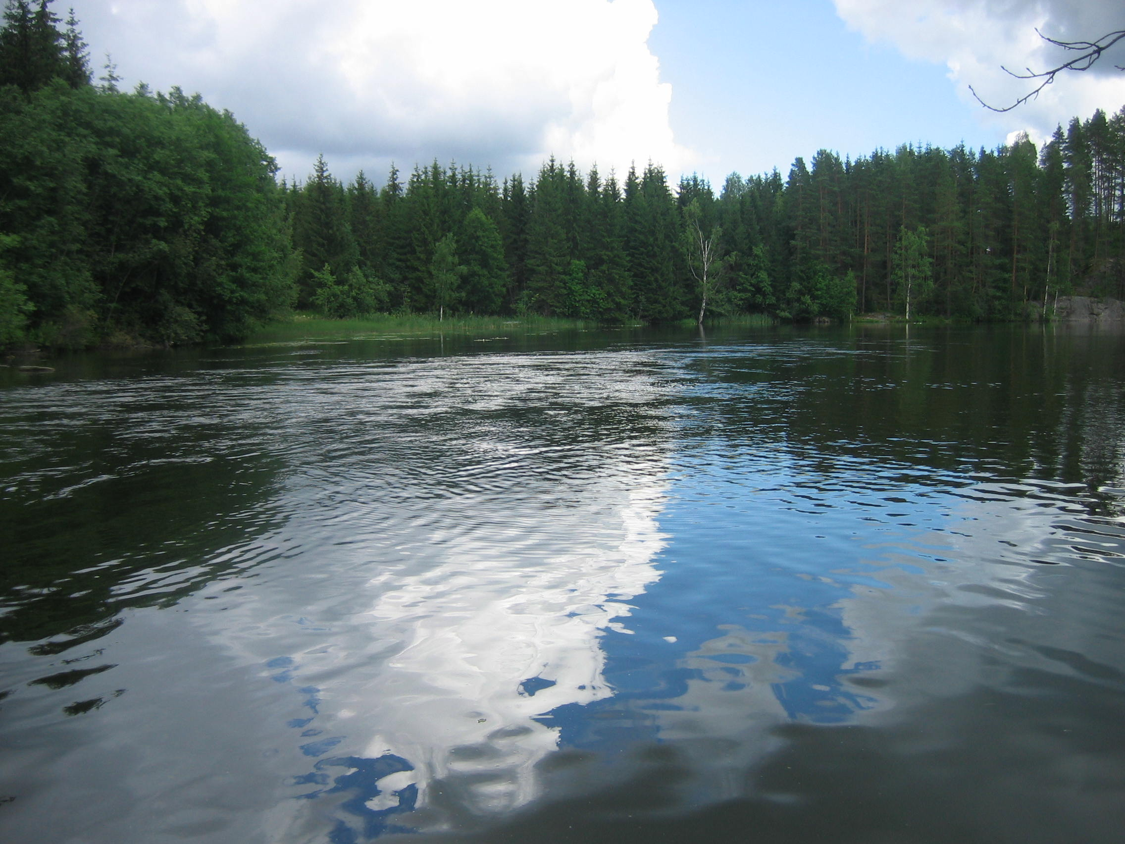 River Hiitola in Simpele, Rautjärvi, Finland